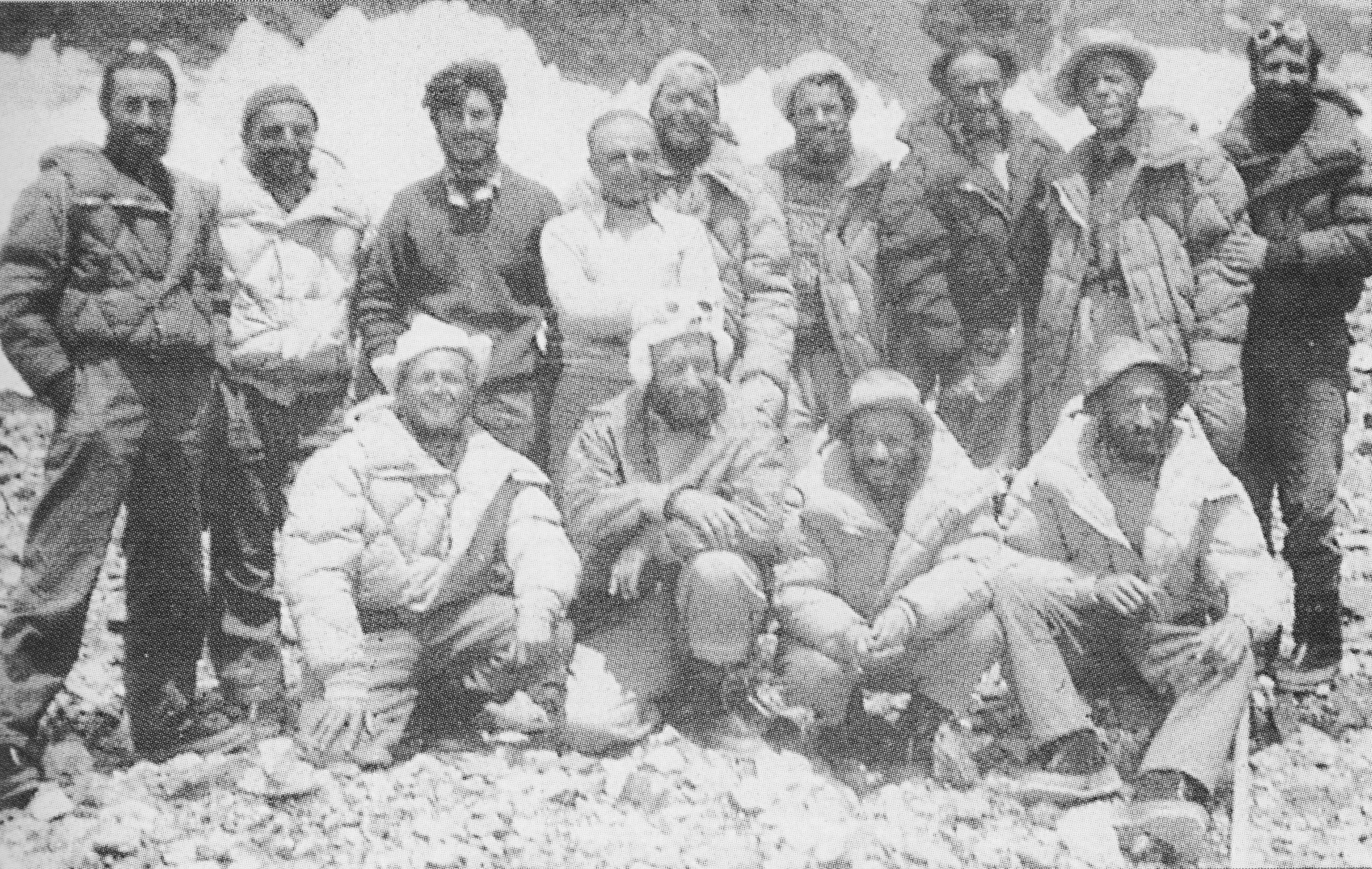 Components of the italian K2 expedition 1954